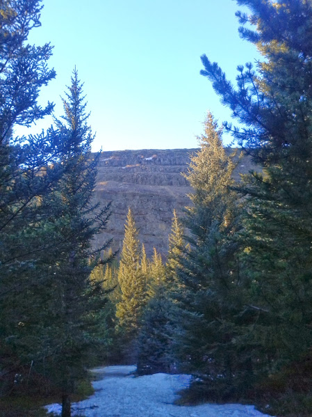 Forest in Thjorsardalur, Iceland